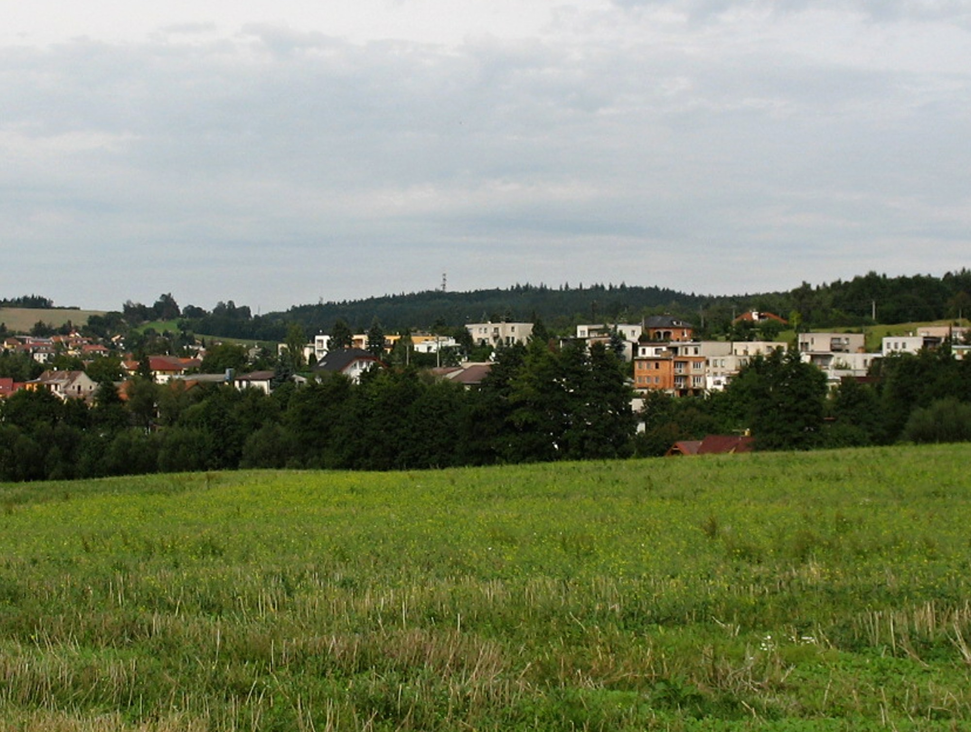 Hill Baba (579 m), The Lišovský práh Mts. (Czech Republic).